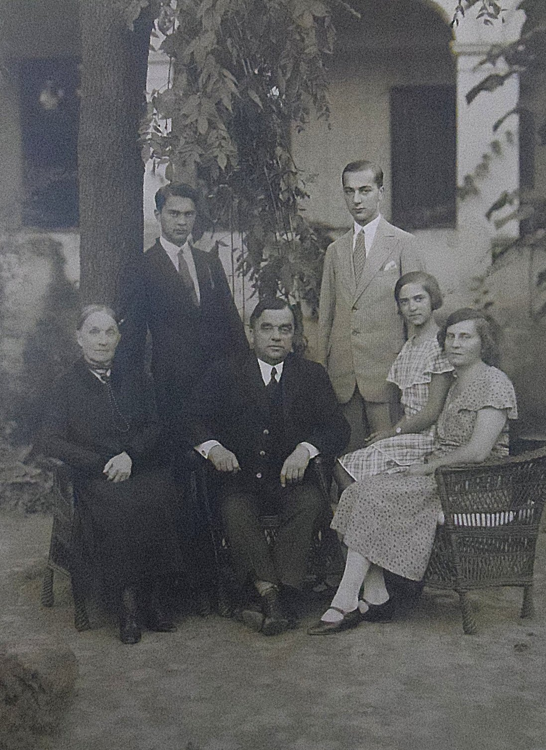 Jeno Boszormenyi protestant pastor and his family